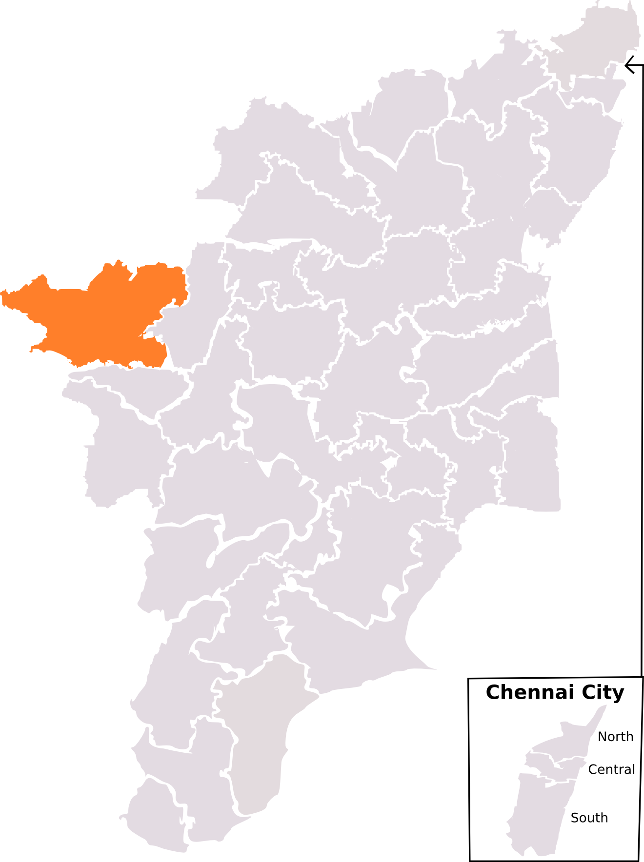 Lok Sabha Election map labeling each constituency for individual pages for Tamil Nadu after delimitation starting 2009 election. Map is based on ECI drawn map from